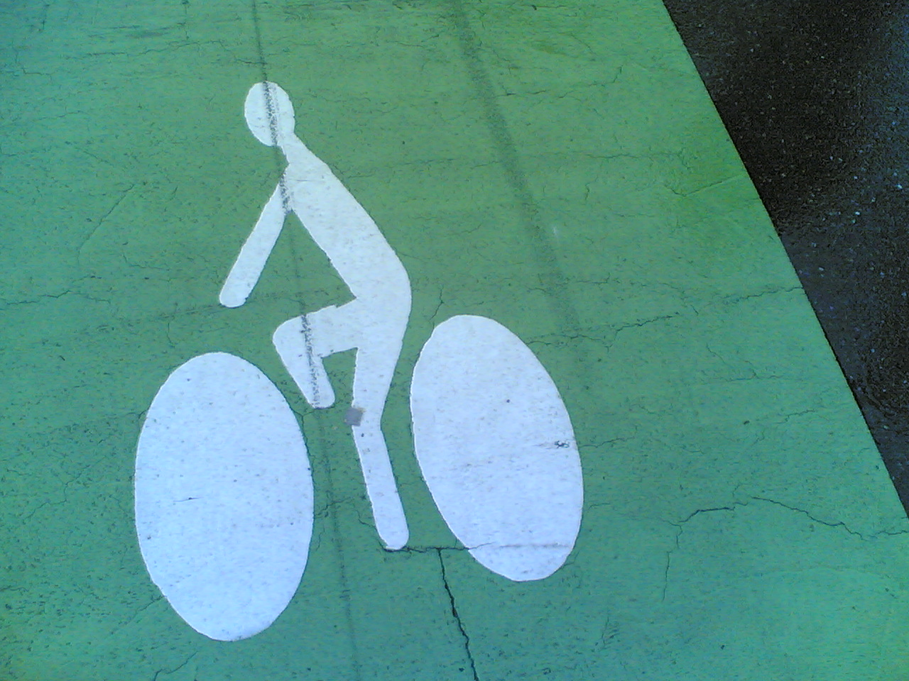 I'am the author of this file, my name is Cme, phothography taken in Swiss